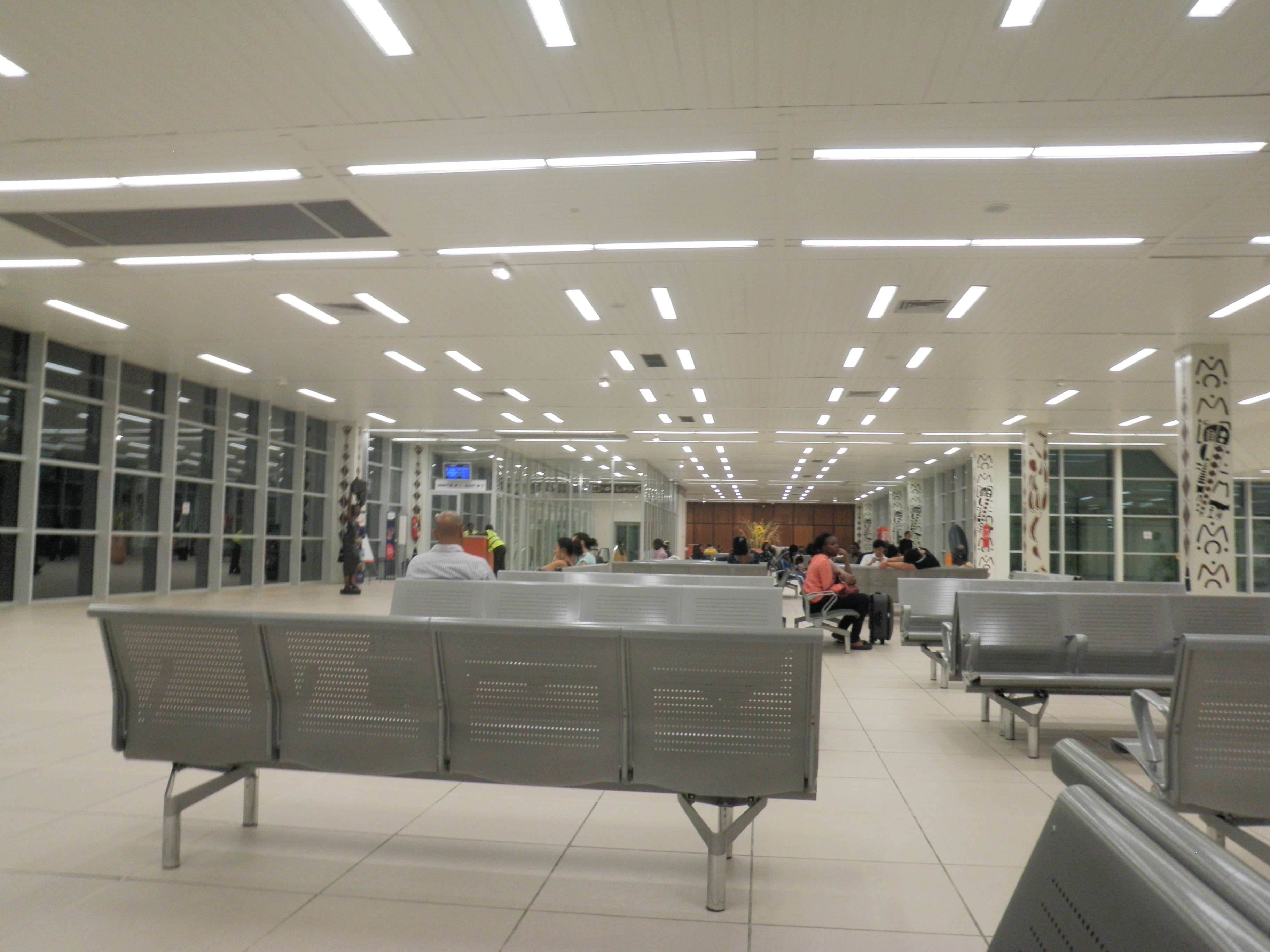 January 2012